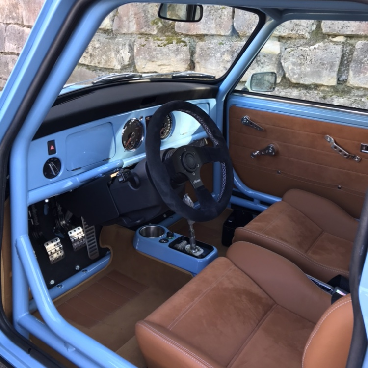 Meanie 2.0T